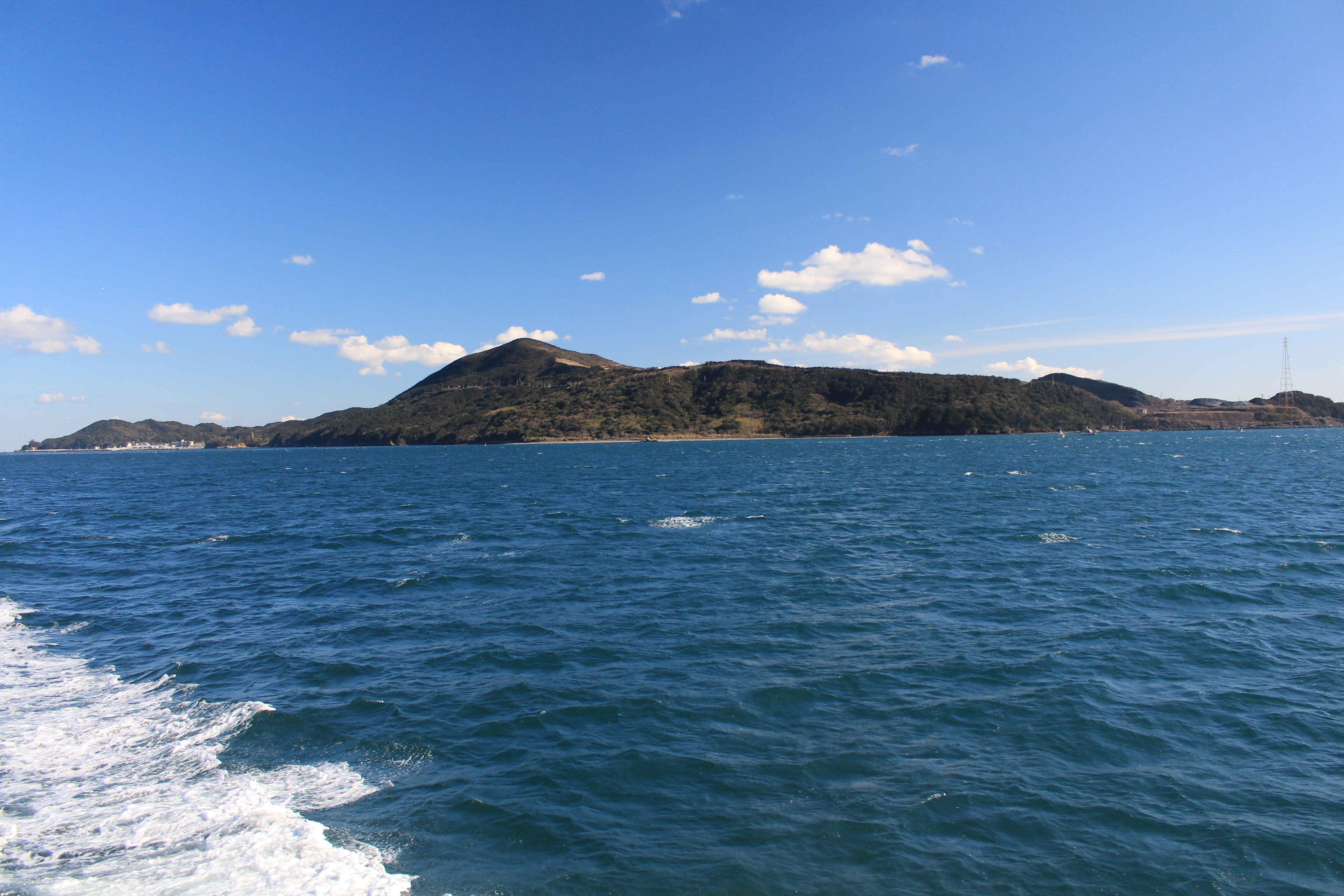 Suga Island in Toba, Mie prefecture, Japan.